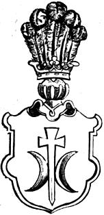 Ostoja according to Herby rycerstwa polskiego